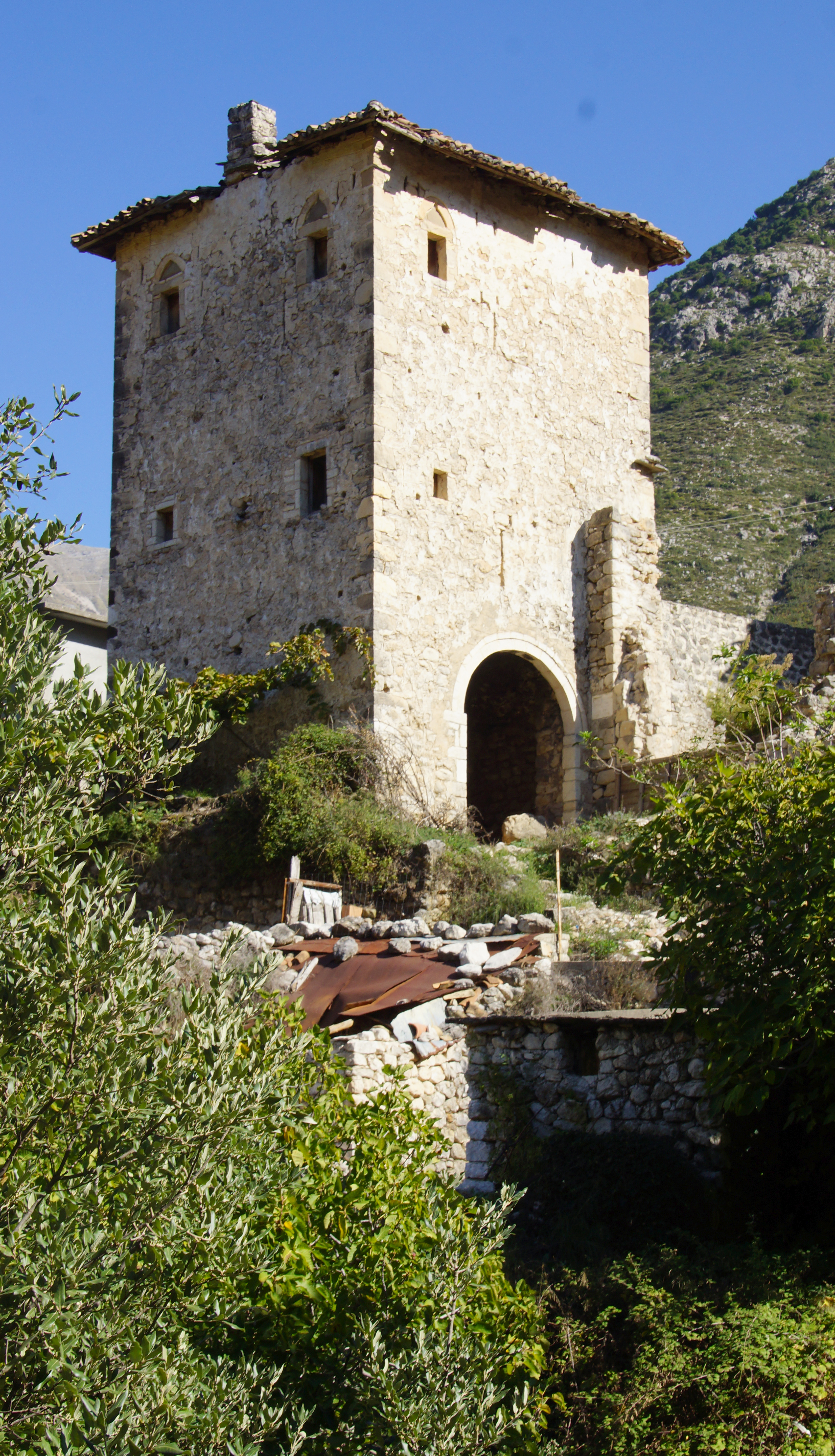 Photo realized during the expedition around Albania for the project The Albanian House